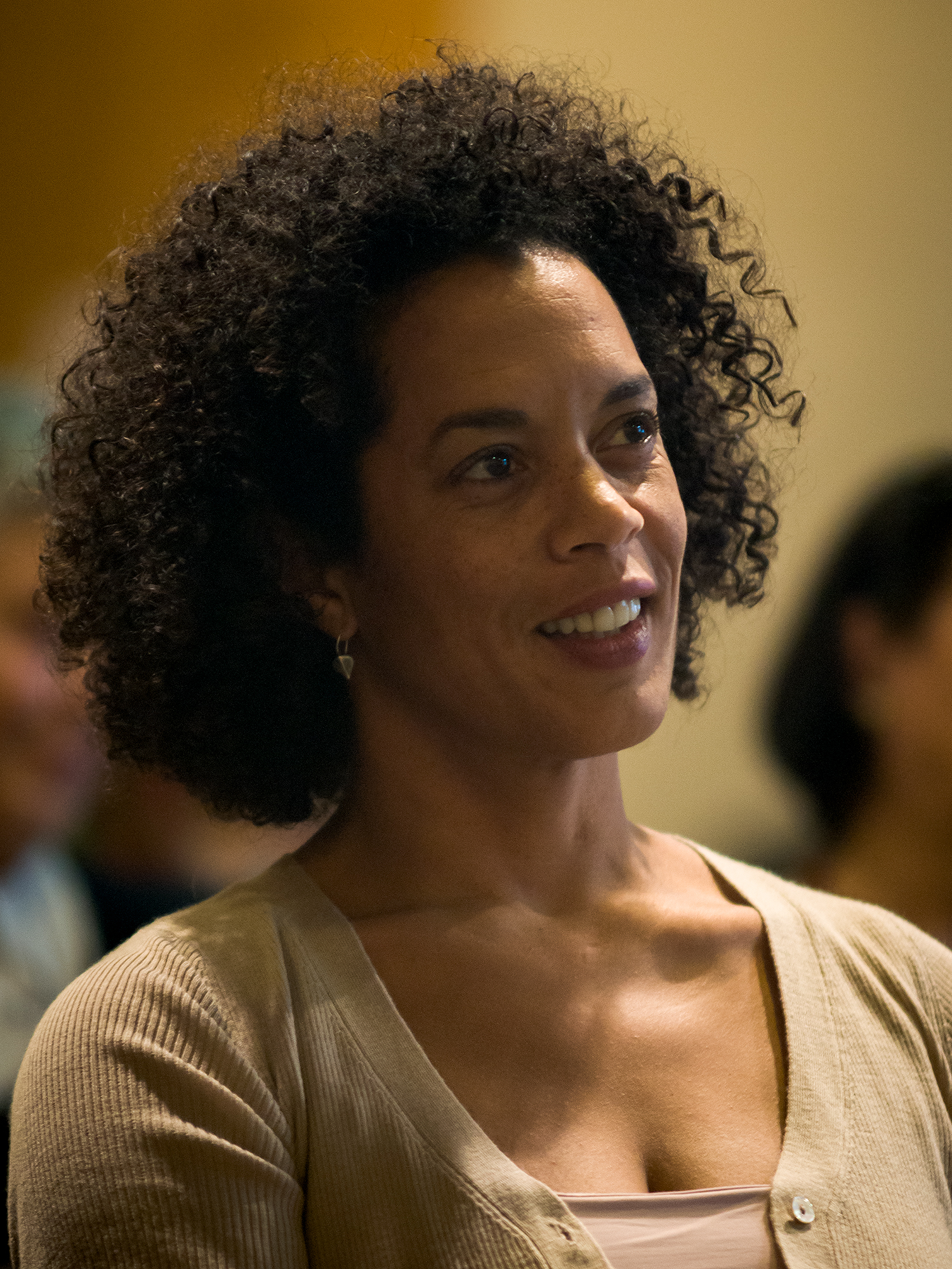 Aminatta Forna at the awards ceremony of the LiBeraturpreis 2008 for her book "Ancestor Stones".